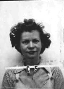 Katherine Oppenheimer Los Alamos wartime security badge.